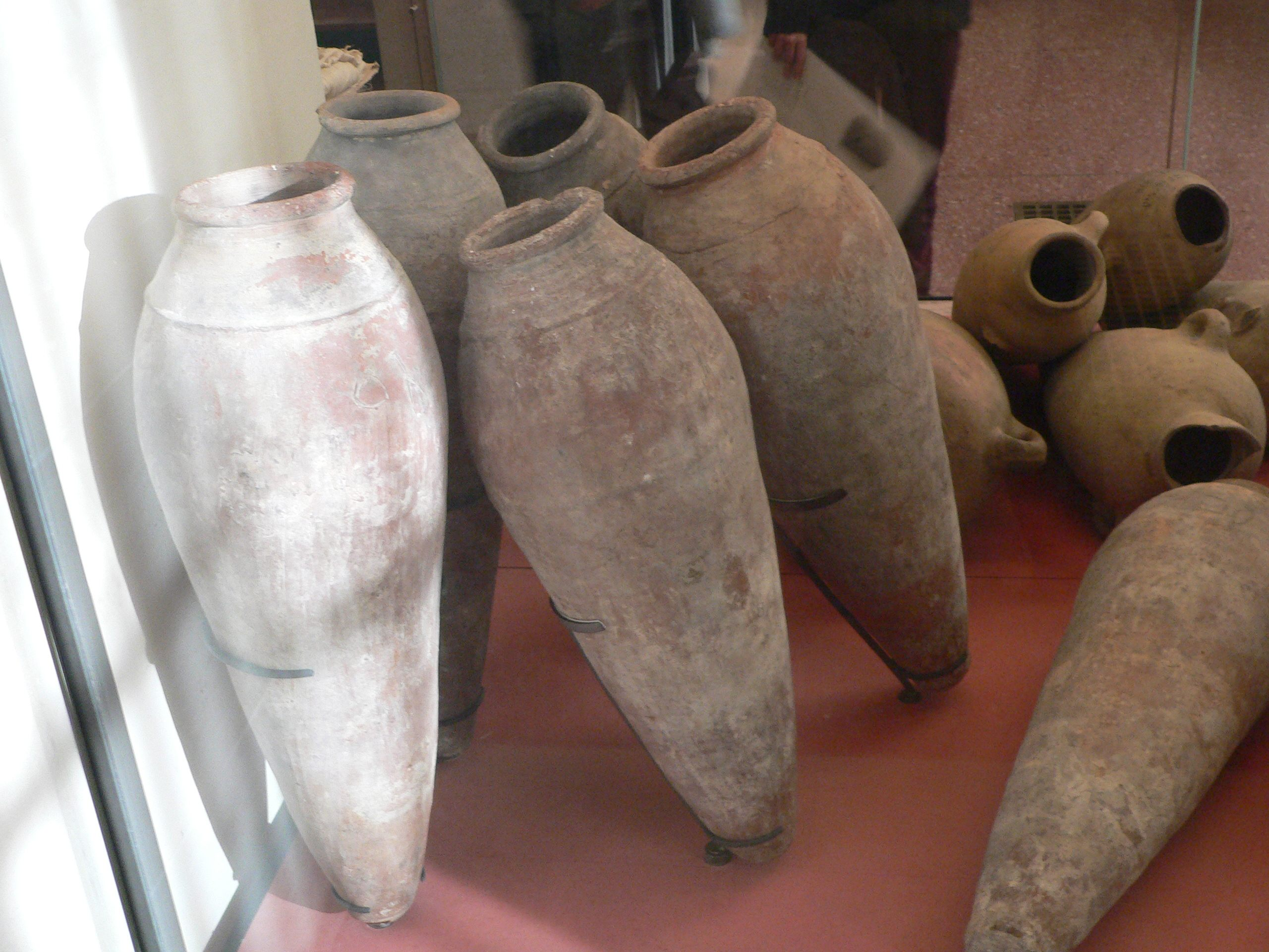 Wine amphoras. Abydos. Egyptian early dynastic period.